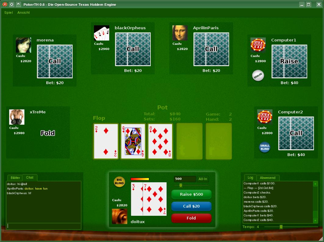 PokerTH 0.6 Screenshot